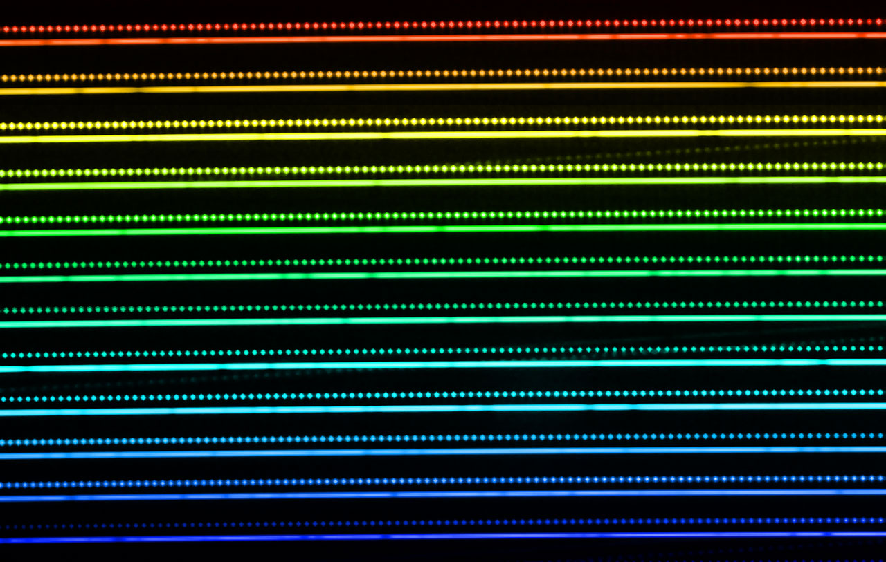 This picture illustrates part of a spectrum of a star obtained using the HARPS instrument on the ESO 3.6-metre telescope at the La Silla Observatory in Chile. The lines are the light from the star spread out in great detail into its component colours. The dark gaps in the lines are absorption features from different elements in the star. The regularly spaced bright spots just above the lines are the spectrum of the laser frequency comb that is used for comparison. The very stable nature and regular spacing of the frequency comb make it an ideal comparison, allowing the detection of minute shifts in the star’s spectrum that are induced by the motion of orbiting planets. Note that in this image, the colour range is for illustrative purposes only, as the real changes are much more subtle.